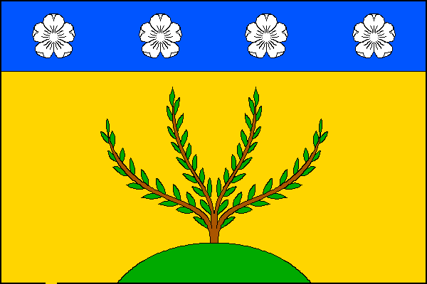 Municipal flag of Oskořínek , District Nymburk, Czech republic